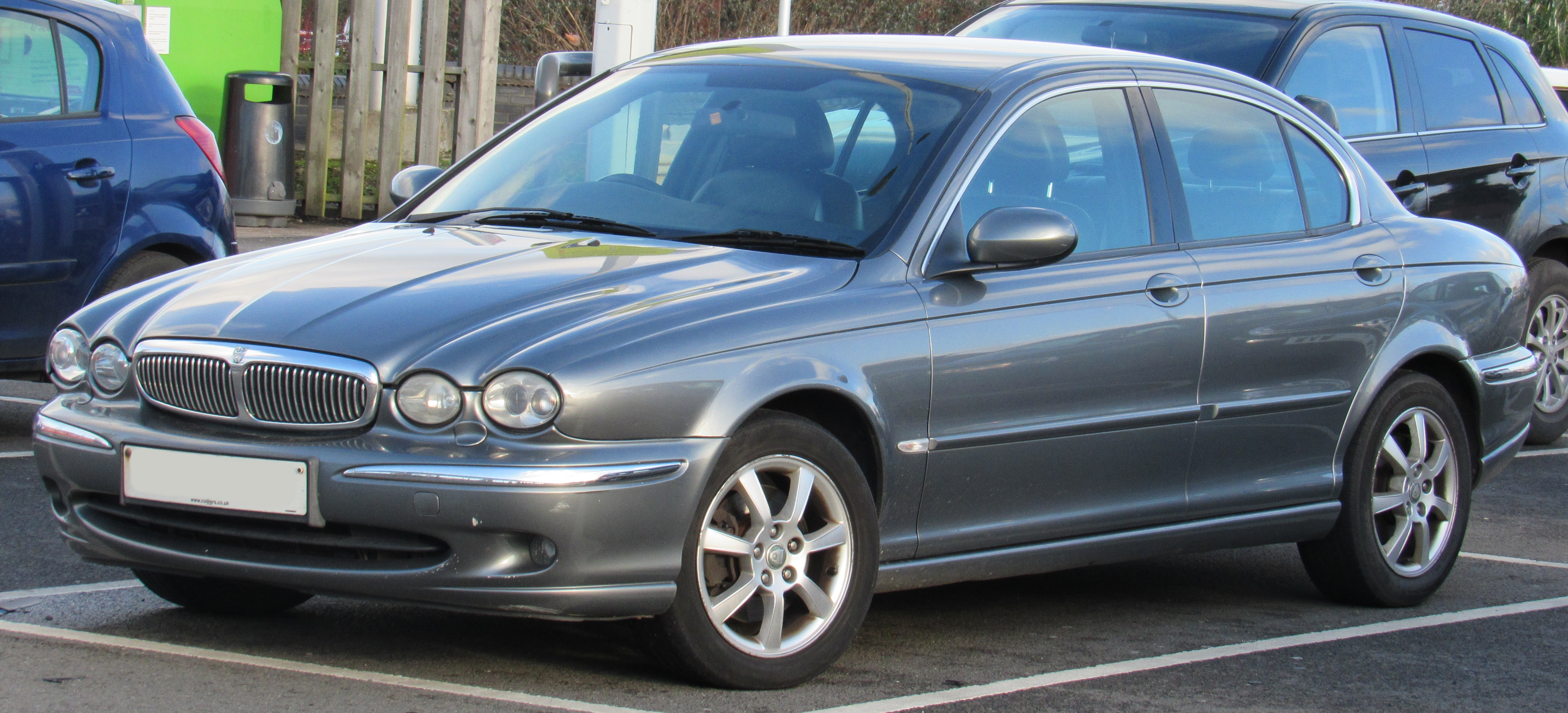 2004 Jaguar X-Type V6 SE Automatic 2.1 Taken in Leamington Spa